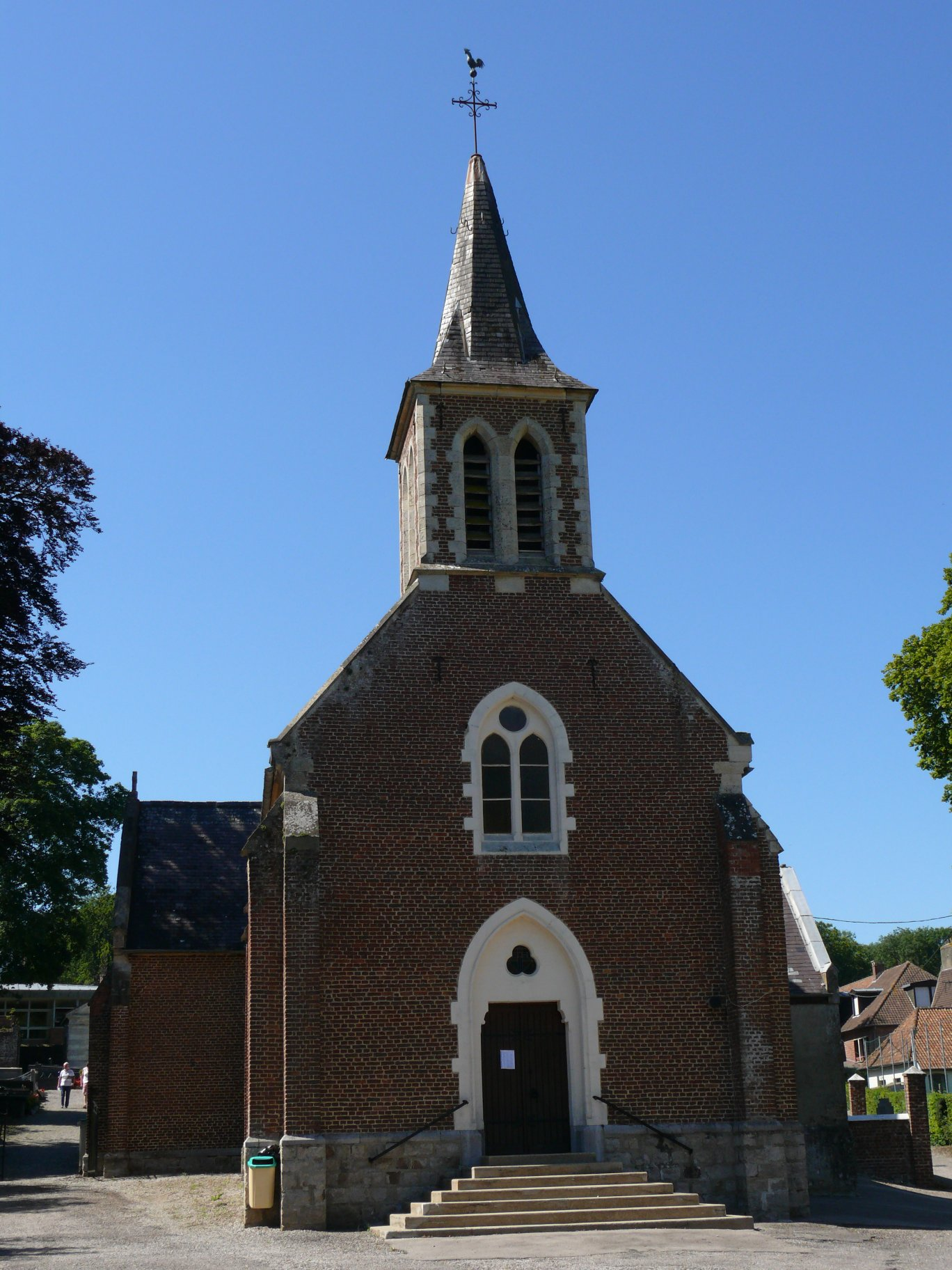 Saint-Maurice's church of Courset (Pas-de-Calais, France).